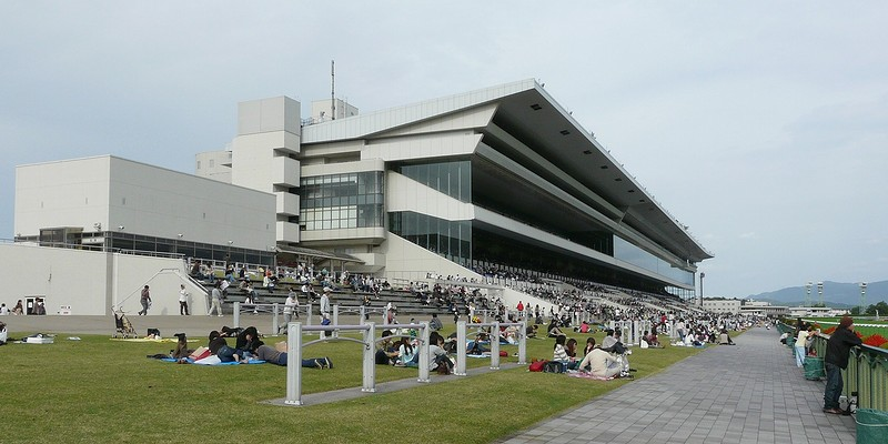 Kyoto-Racecourse-02